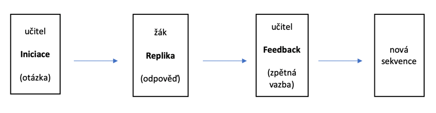 Iniciace - Replika - Feedback